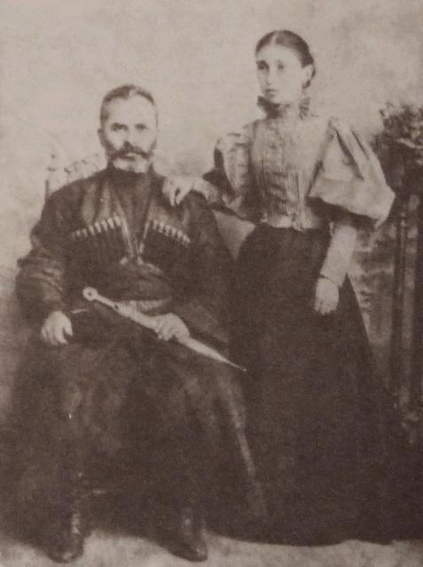 Chavchavadze's Mouravi - Moise Memarnishvili with his wife